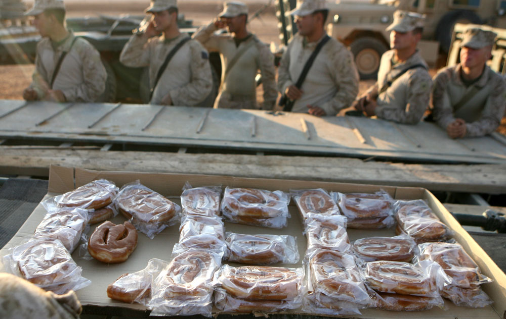 Marines with Support Platoon, Company B, 1st Combat Engineer Battalion, Regimental Combat Team 5 take time from conducting operations in the area to celebrate the Marine Corps' 233rd birthday Nov. 13 in Rutbah, Iraq. Traditionally cake is served at a Marine Corps birthday ceremony, but the Marines with the platoon made due with glazed pastries.